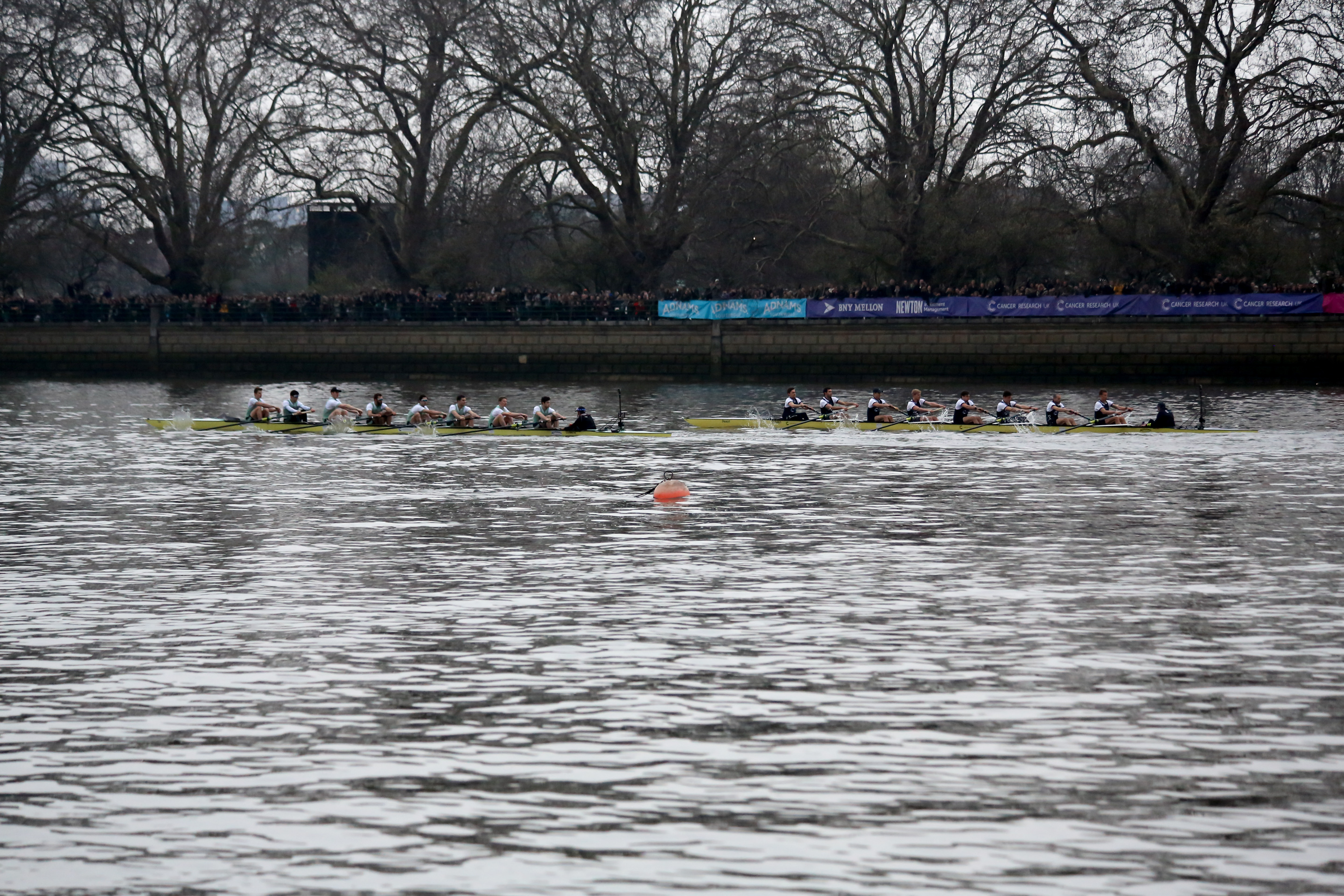 The Cancer Research UK Boat Race 2018 - Men's Blues Race